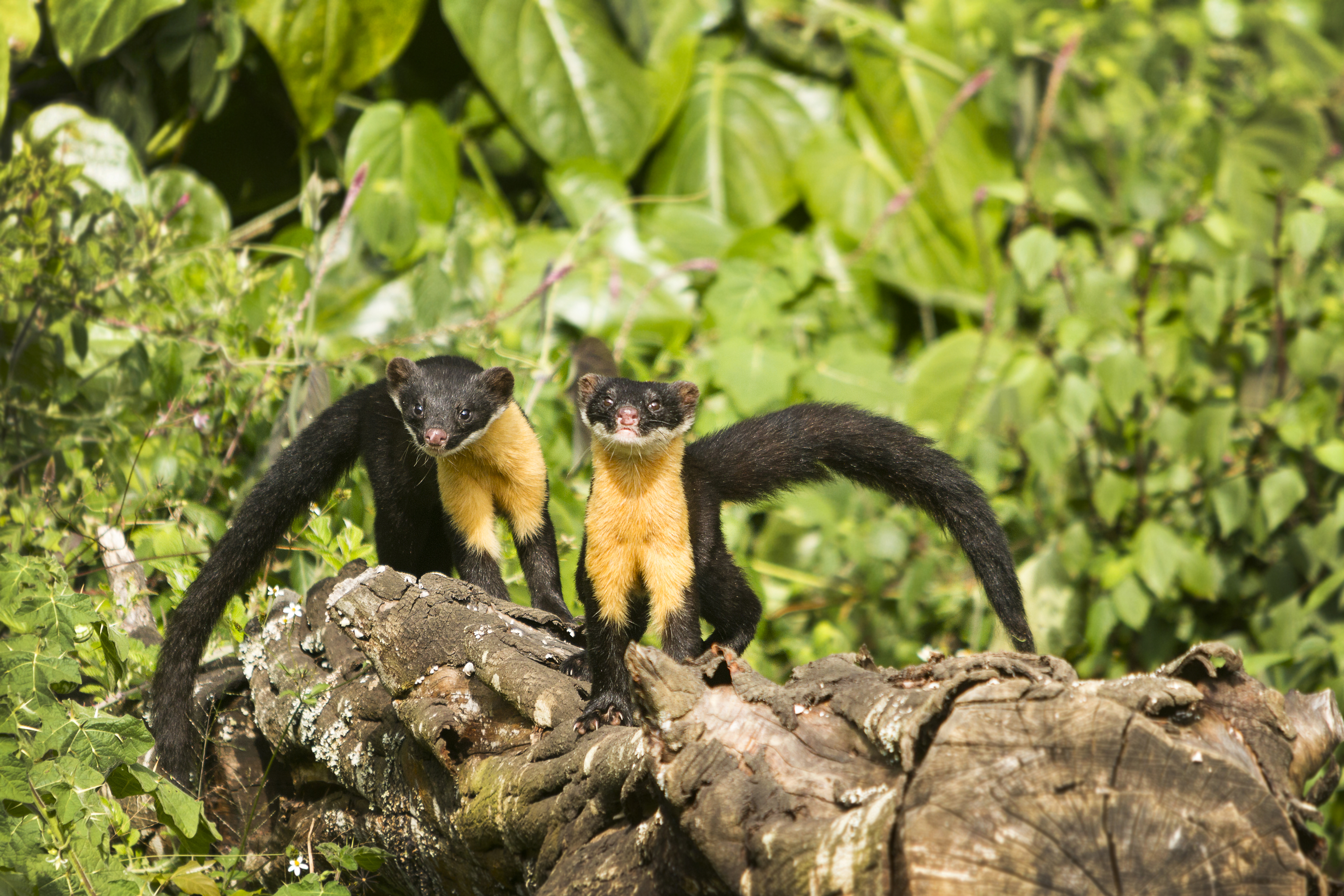 Two Nilgiri Martens (Martes gwatkinsii) in their natural habitat.